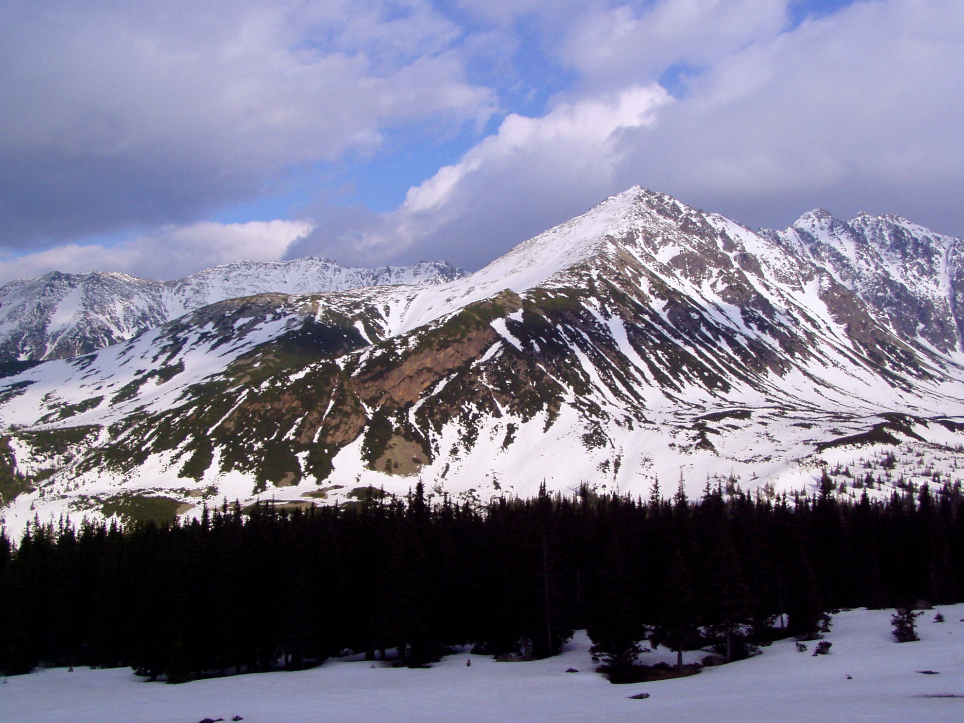 View from Hala Gąsienicowa in Tatra Mountains, Poland. Żółta Turnia peak.